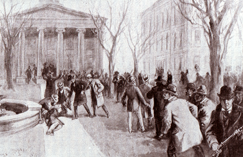 Sketch depicting the aftermath of the shooting of Kentucky Governor William Goebel